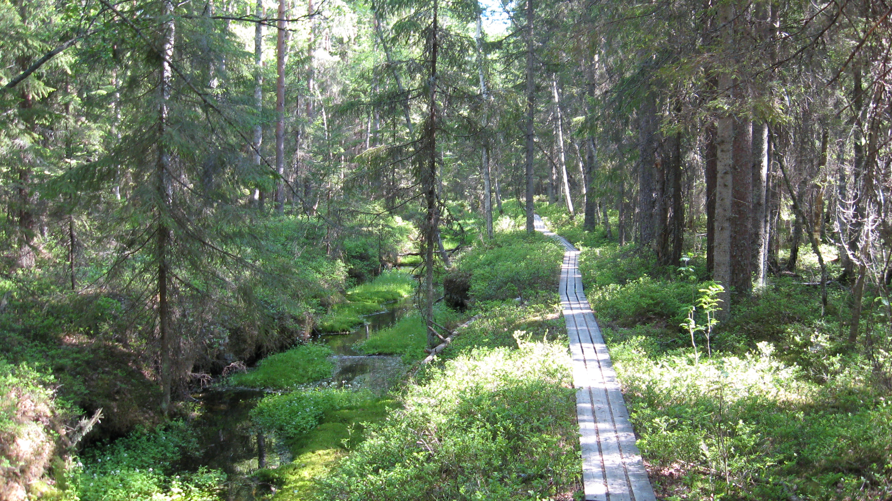 A stream and forest in Lauhanvuori National Park, Isojoki, Finland.